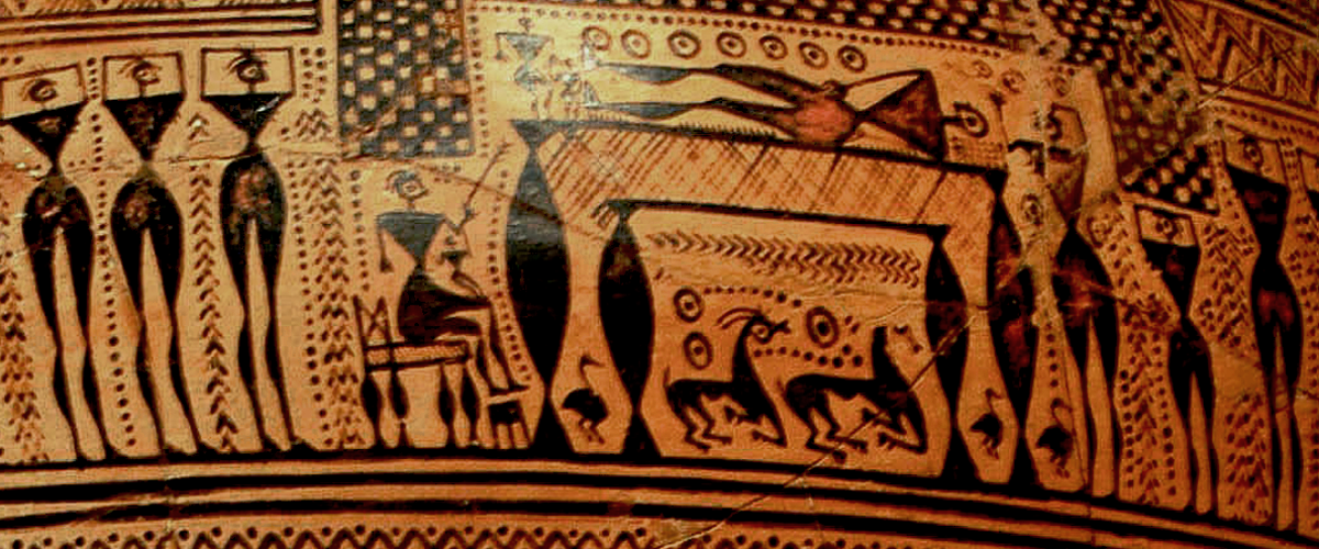 Detail of Prothesis Scene depicted on Geometric Terracotta "Hirschfeld" Krater ca 750-735 BCE